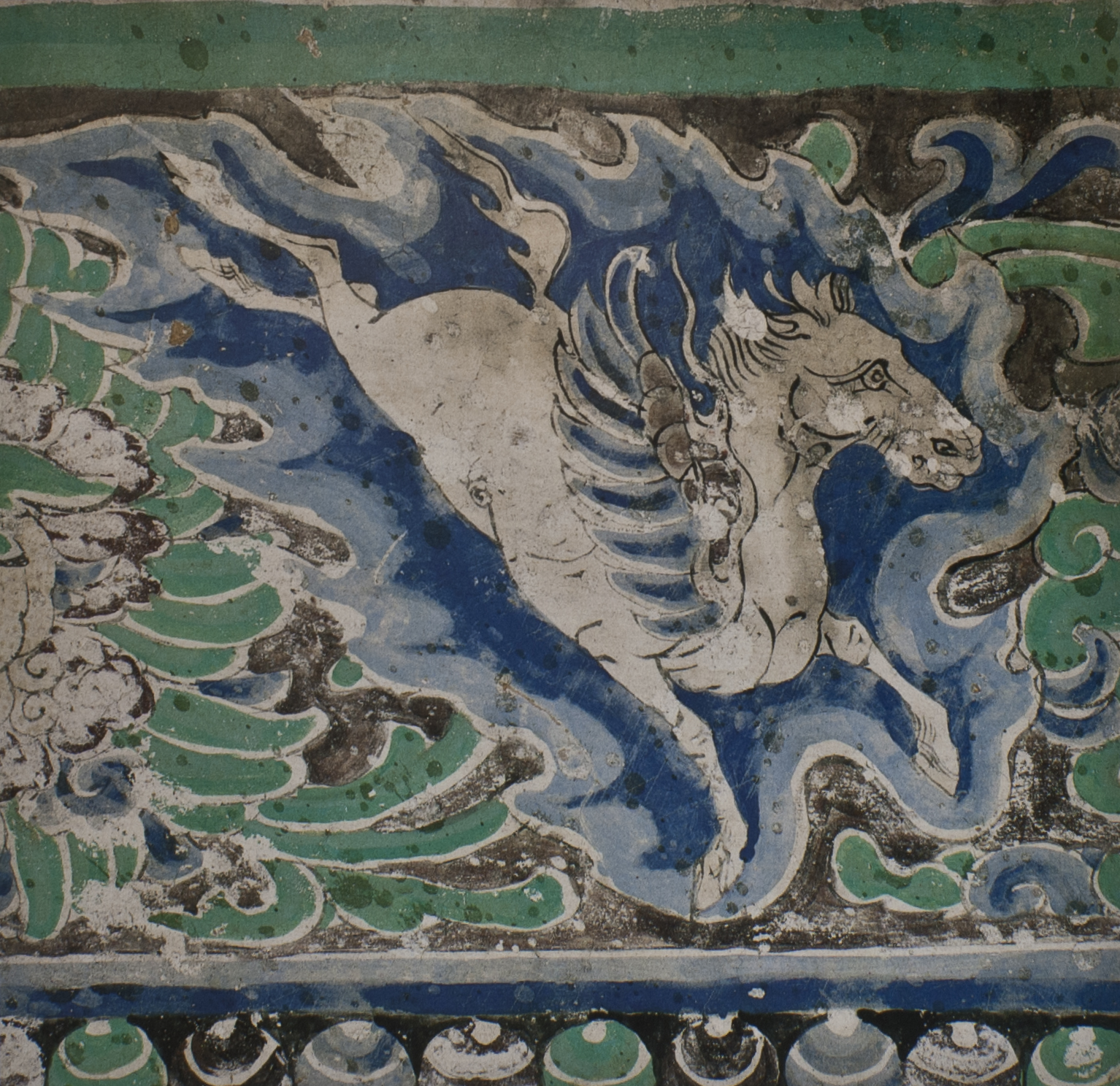 Yulin Caves, Gansu, China